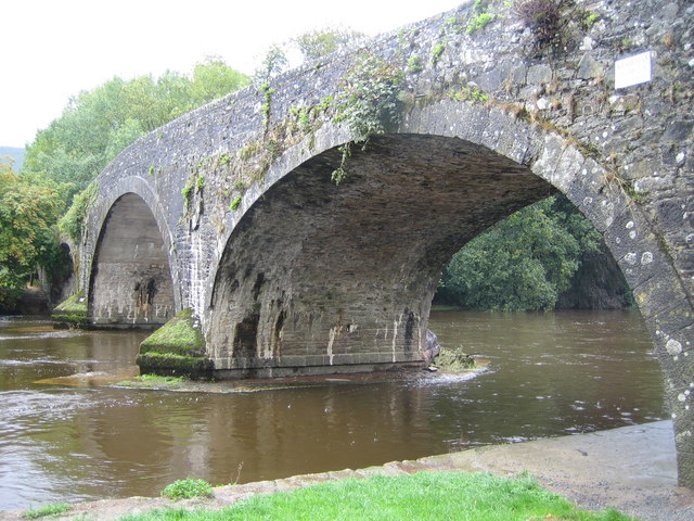 Kilsheelan Bridge This bridge carries the R706 road over the River Suir. It is one of the structures registered in Trinity College Dublin's National Civil Engineering Database as an Historic Engineering Work (HEW No. 3236). A plaque on the bridge (not the one in the photo) records the sad death by drowning of 4 people in the river in an accident in the 1920s.